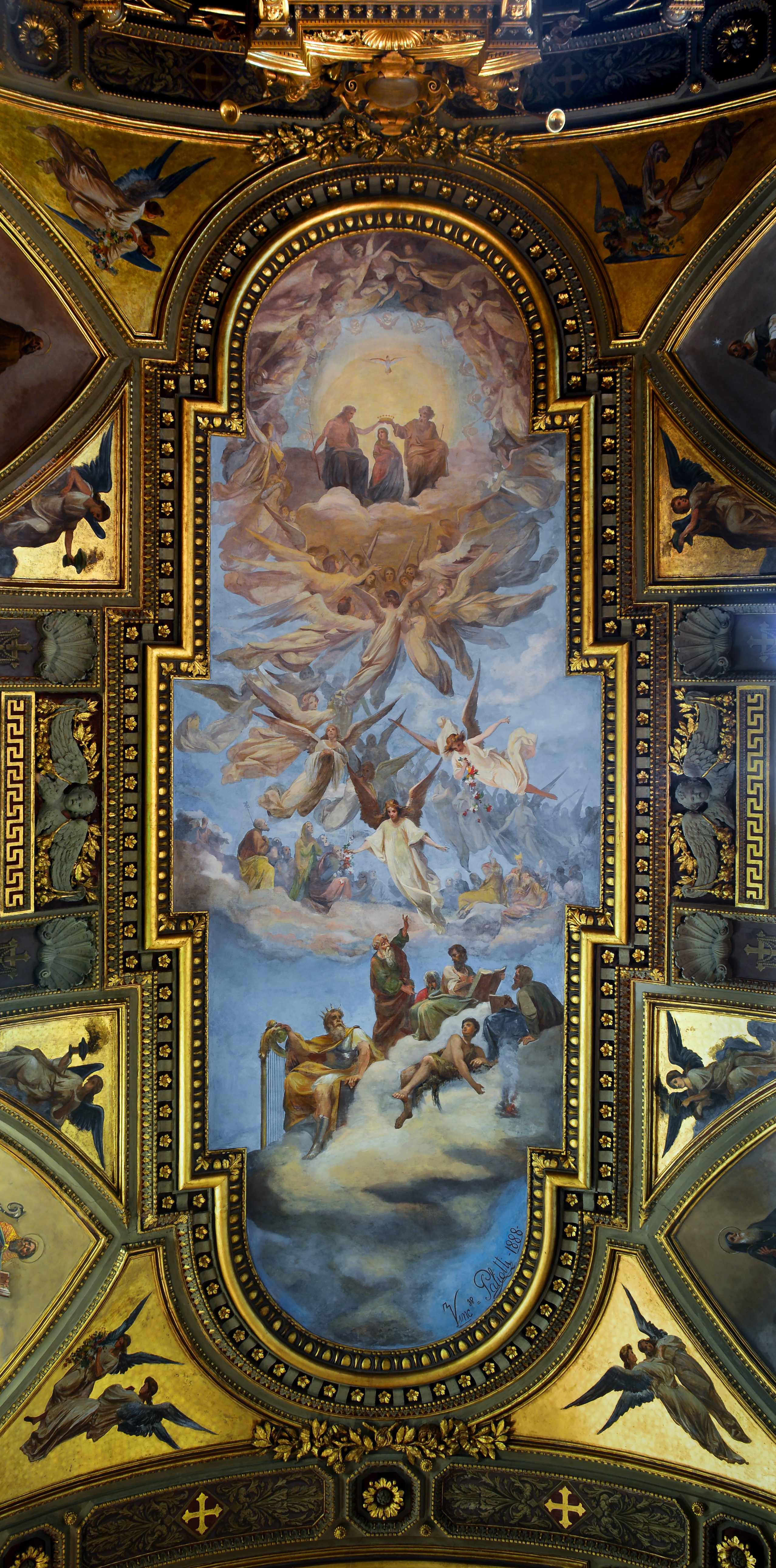 Beata Vergine del Rosario (Pompei) - Ceiling